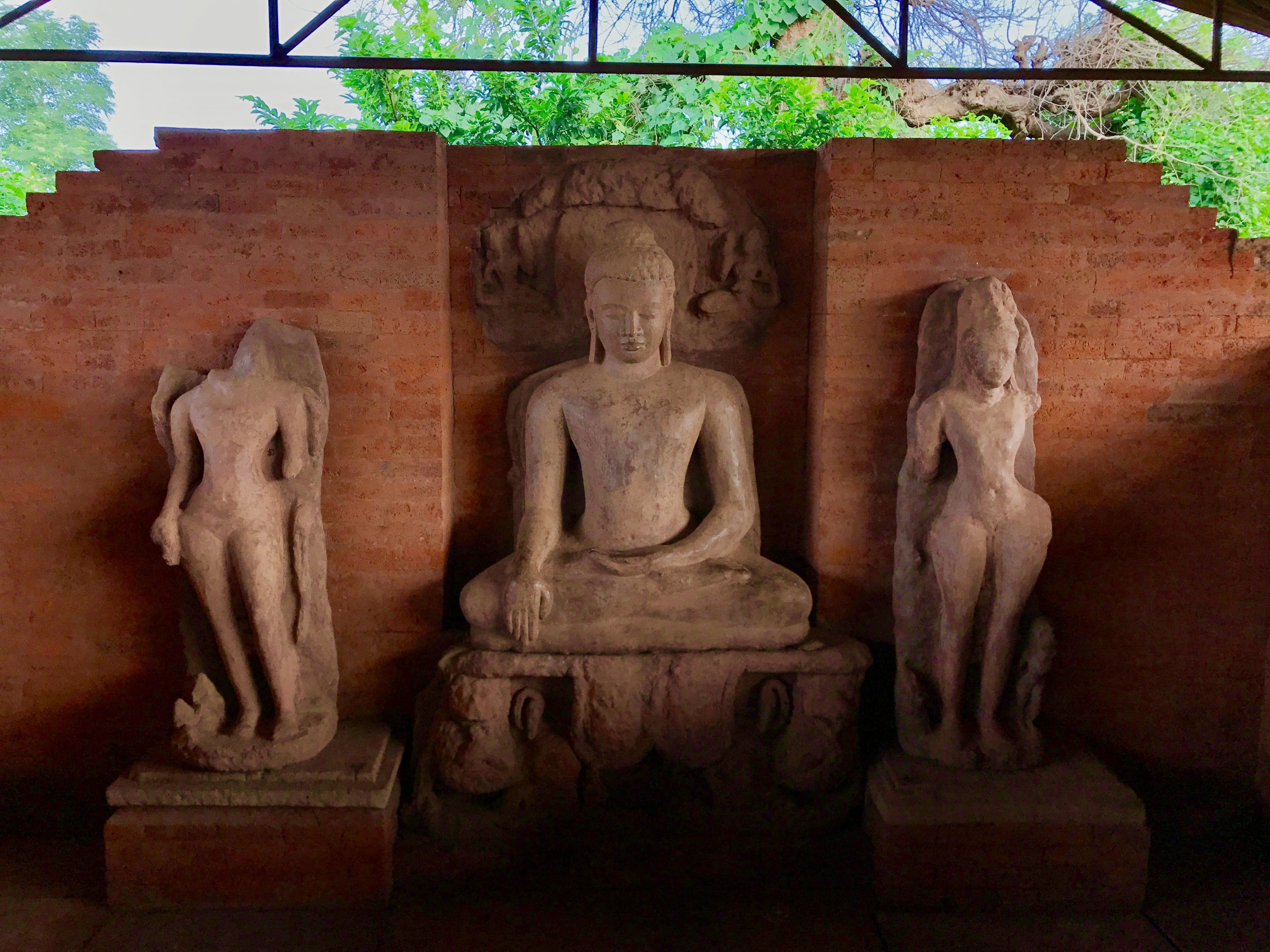 Sirpur, also referred in medieval era texts as Shripur (city of wealth), is a town on the banks of Mahanadi in Chhattisgarh. The site became archaeologically significant after a visit and report on a Laxman (Lakshmana) temple in 1872 by Alexander Cunningham, a colonial British India official. Sirpur is mentioned in the memoirs of the Chinese traveler Hieun Tsang as a location of monasteries and temples. The site has been significant for its temple ruins of Rama and Lakshmana of the Ramayana fame. The site excavations after 1960, particularly after 2003, have yielded 22 Shiva temples, 5 Vishnu temples, 10 Buddha Viharas, 3 Jain Viharas, a 6th/7th century market and snana-kund (bath house). The site shows extensive syncretism, where Buddhist and Jain statues or motifs intermingle with Shiva, Vishnu and Devi temples. The region was conquered and plundered by the armies of Delhi Sultanate and later Deccan Sultanates. The town and temples were damaged in the wars and were abandoned. Dense vegetation grew over it and floods deposited silt. 20th and 21st century excavations have unearthed many monuments. The site is large and artwork stick out of farmlands and dirt roads in and near Sirpur.